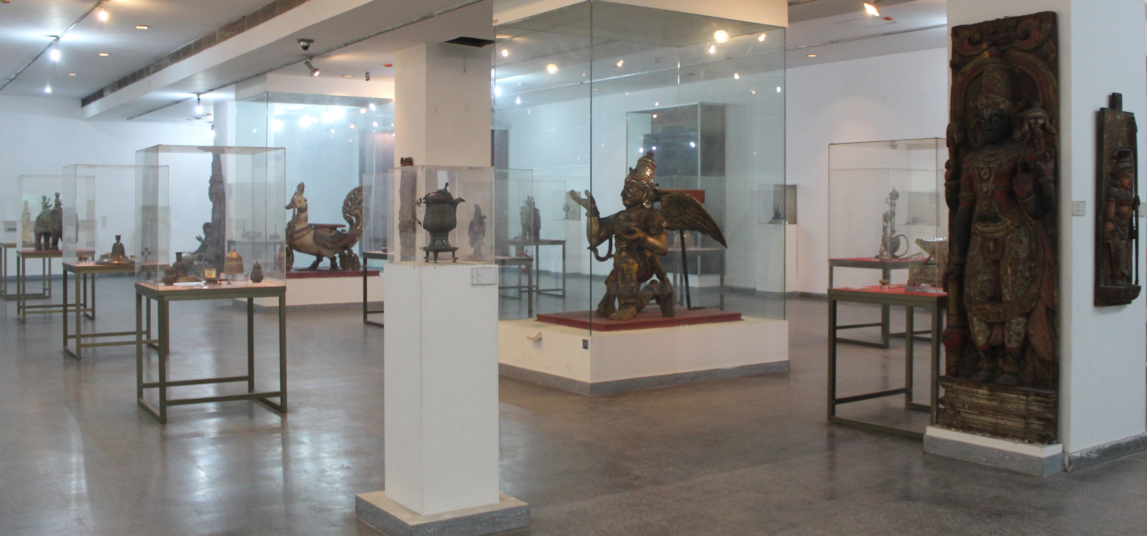 A view of the Decorative Arts Gallery 2